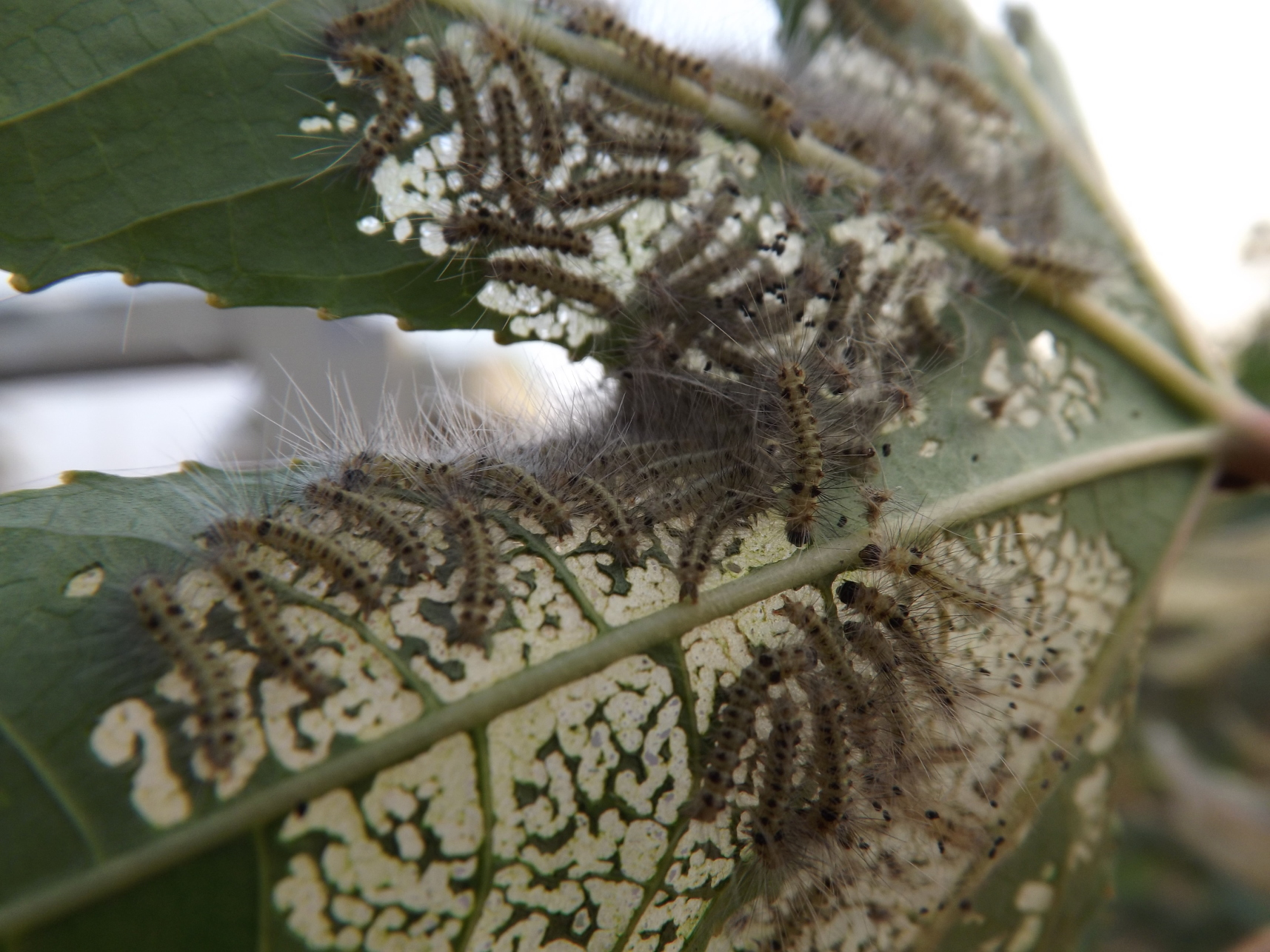 Young larvae of Olepa schleini feeding on Ricinus communis (castor oil plant), 9.2017, Glilot, Israel